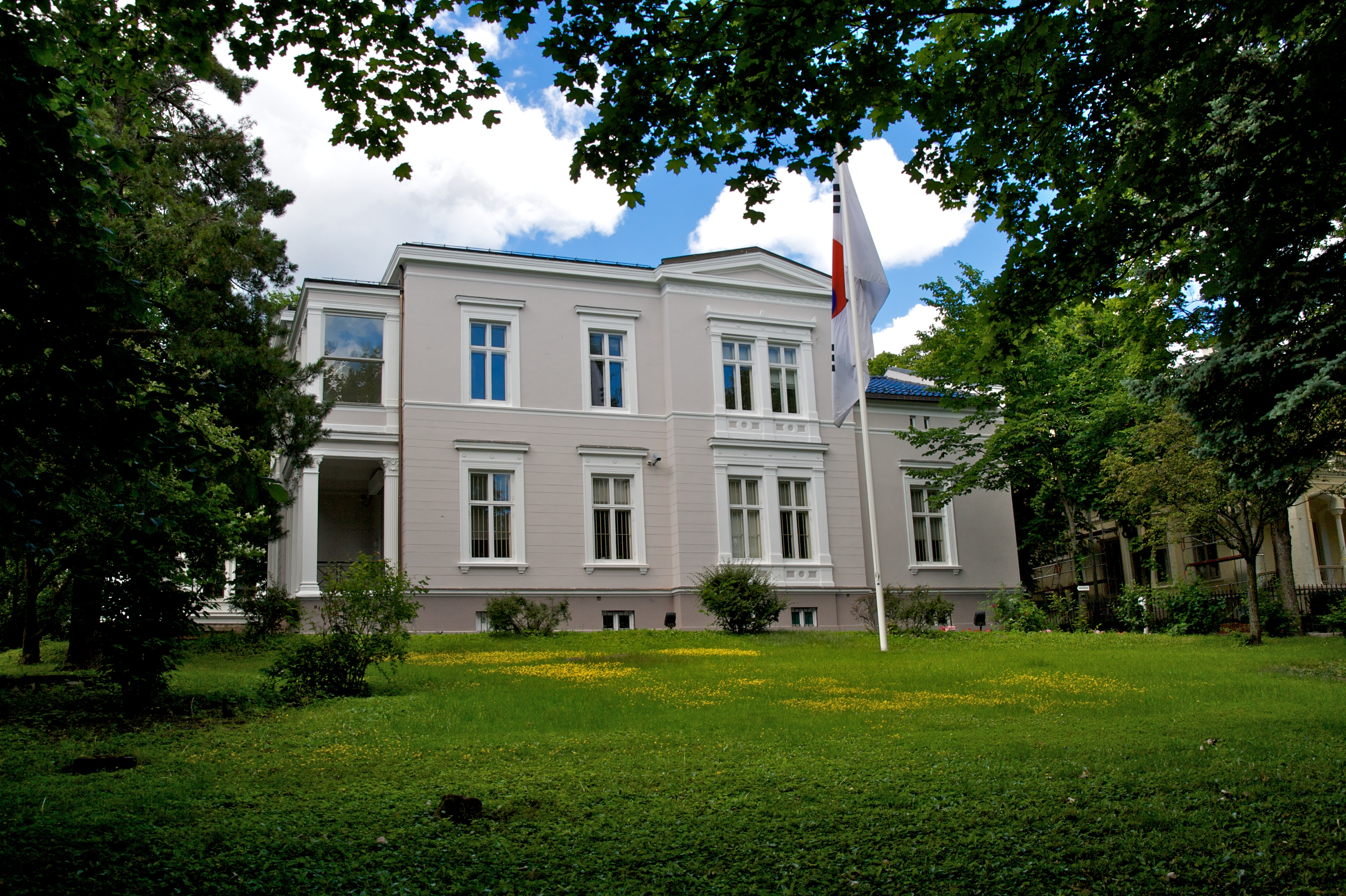 South Korean Embassy, Oslo, Norway.